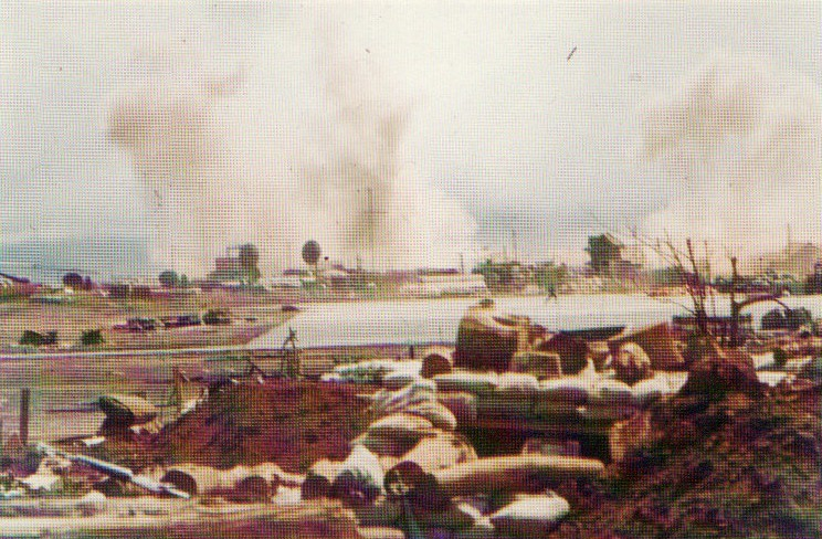 Shells fall around Khe Sanh Combat Base, c. 1968.